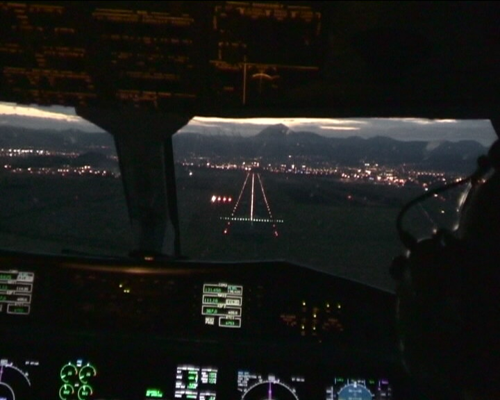 landing at CFE